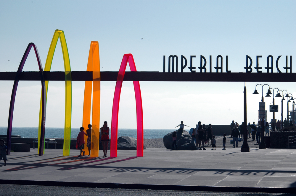 Imperial Beach, California The symbol of this surfers' community south of San Diego.